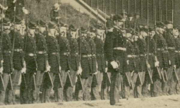 Washington Territorial Militia lined up in front of homes in Seattle, 1880